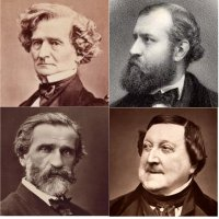 Clockwise from top left: Hector Berlioz, Charles Gounod, Gioachino Rossini, Giuseppe Verdi.